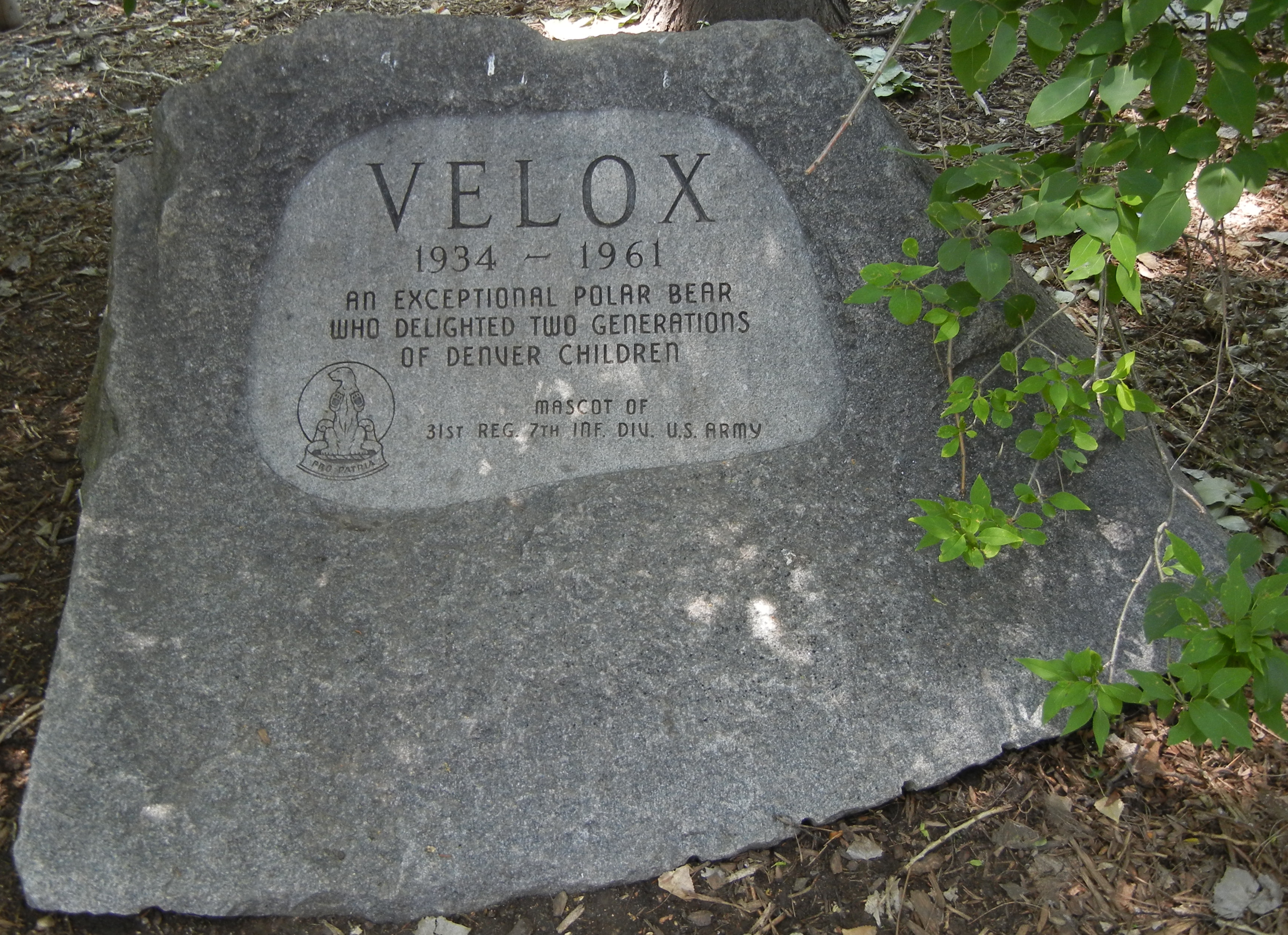 Memorial marker to Velox the polar bear at the Denver zoo. Off a grassy clearing West of Bear Mountain and across from the squirrel Monkeys.